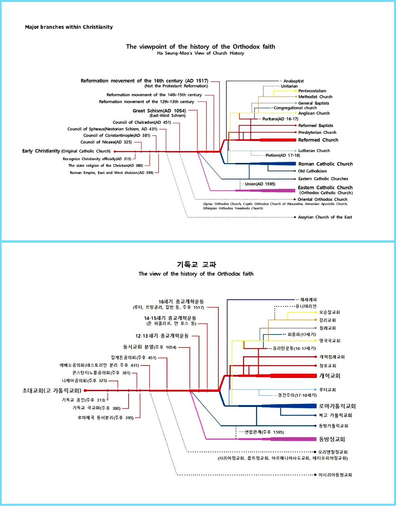 The view of the Orthodox faith by HaSeung-moo(Major branches within Christianity